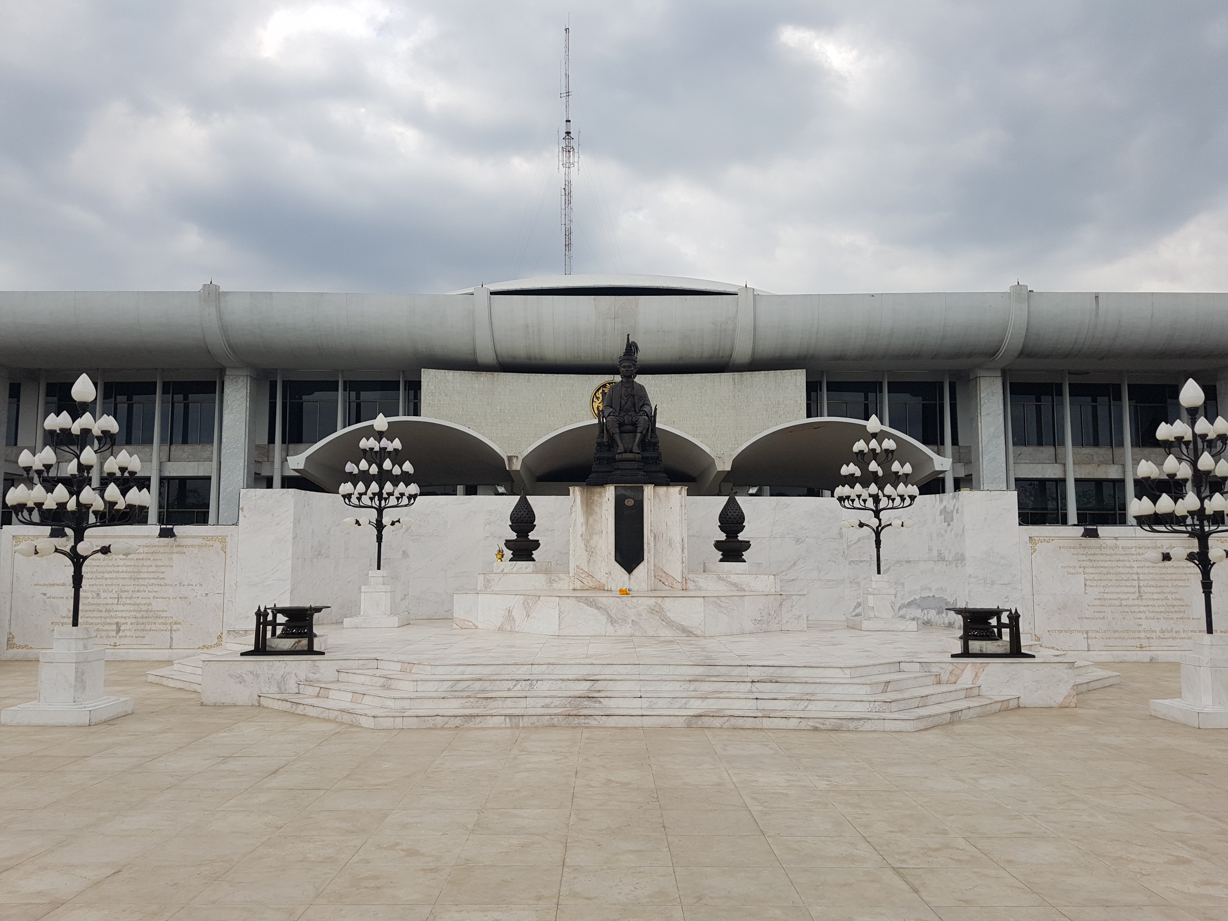 Thai Parliament Museum, housed by Parliament House of Thailand in Bangkok, with statue of King Prajadhipok in the front